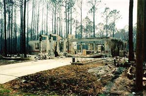 Flagler County, FL, June 25, 1998 -- Several homes were destroyed by wildfire in Flagler County, FL. Photo by Liz Roll